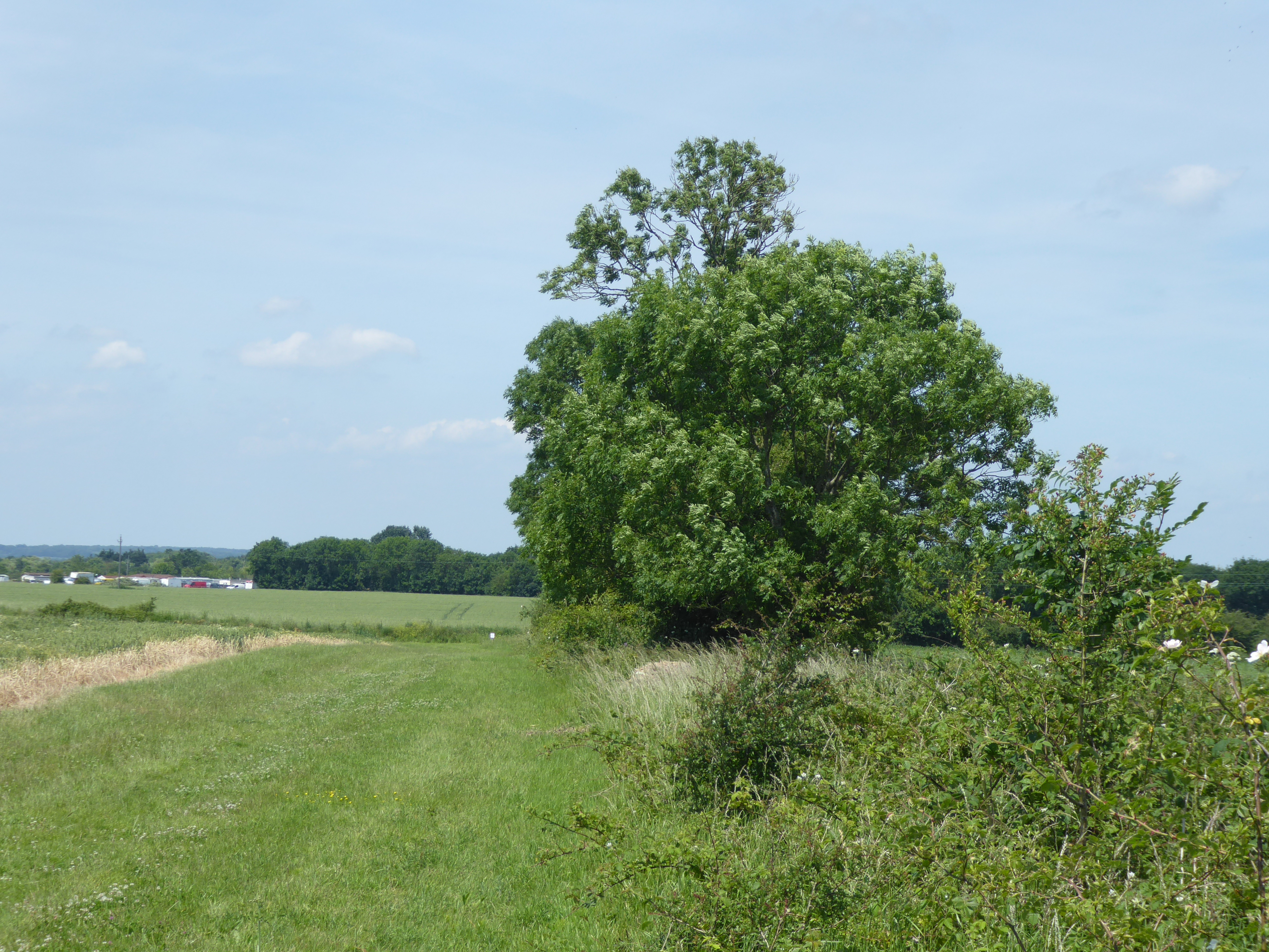 The very edge of Greater London